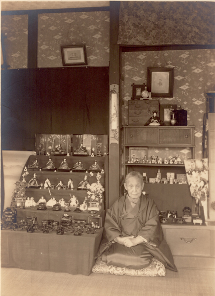 新島八重 1932年3月3日